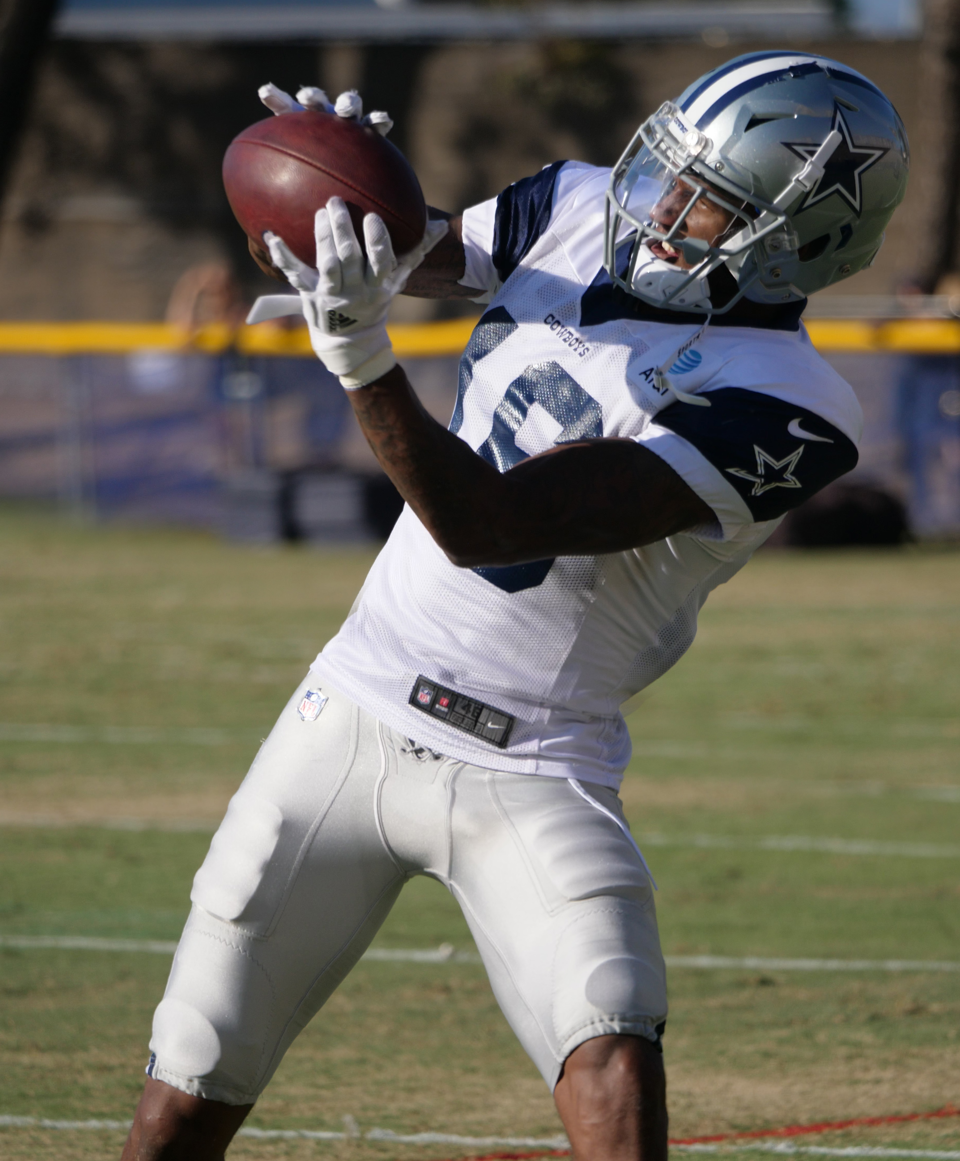 Cedrick Wilson Jr. of the Dallas Cowboys catches a ball during training camp at River Ridge Playing Fields in Oxnard, California in summer 2019.